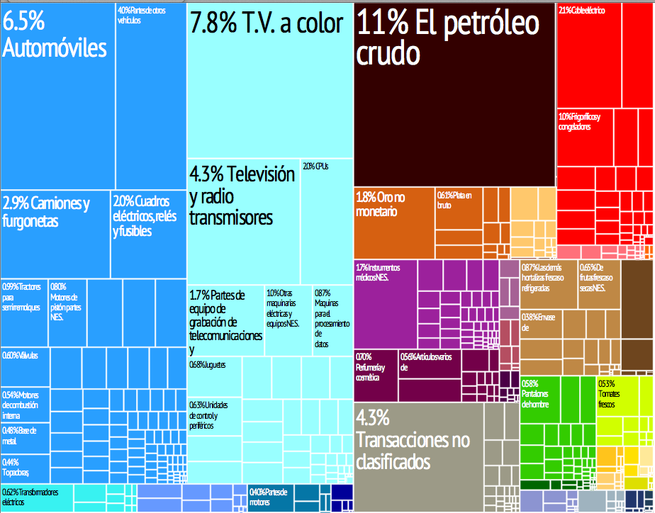 Representación gráfica de los productos de exportación del país en 28 categorías codificadas por color. Cada recuadro de color representa un producto y su tamaño es proporcional a la participación que ese producto representa dentro del total de las exportaciones del país.